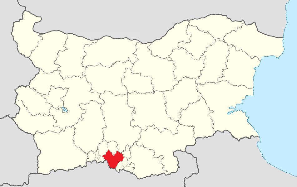 Location map of Smolyan Municipality within Bulgaria and Smolyan province